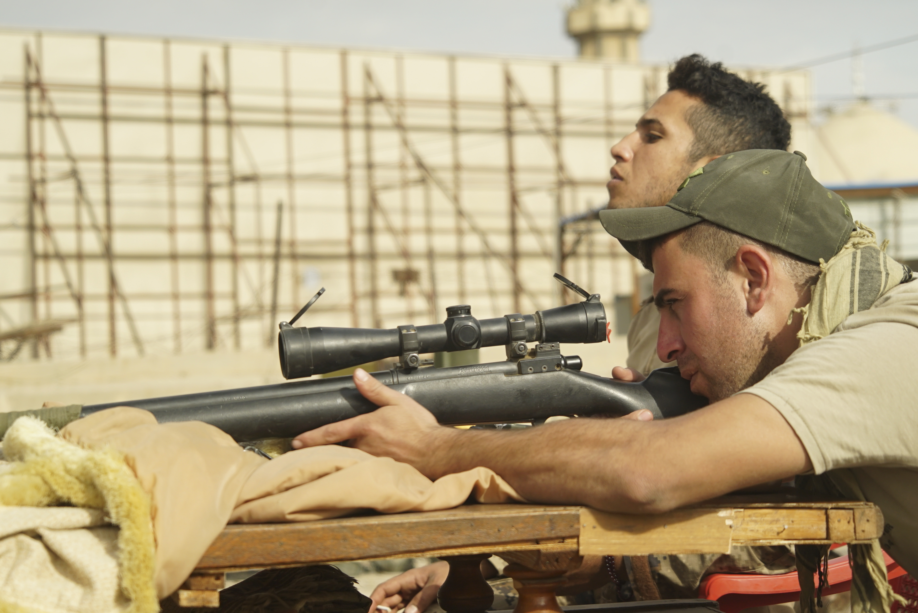 ISOF soldiers in Mosul, Northern Iraq, Western Asia. 15 November, 2016.